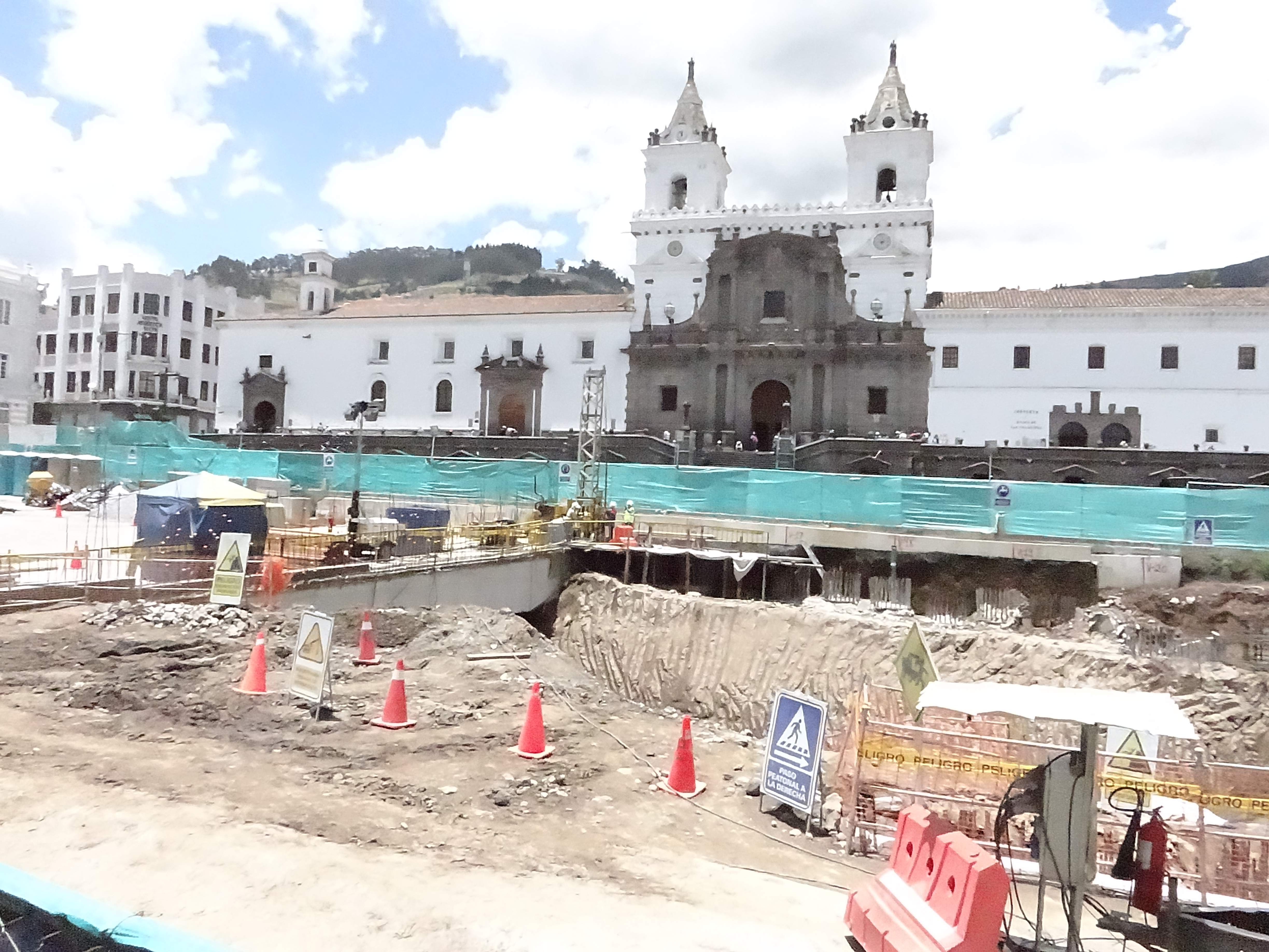 (El Centro Histórico de Quito) pic. 1a (October 2017) construction, plaza san fransisco, quito, (El Centro Histórico, Quito) Historic Center of Quito UNESCO World Cultural Heritage Site Centro Histórico, Quito Photography by David Adam Kess